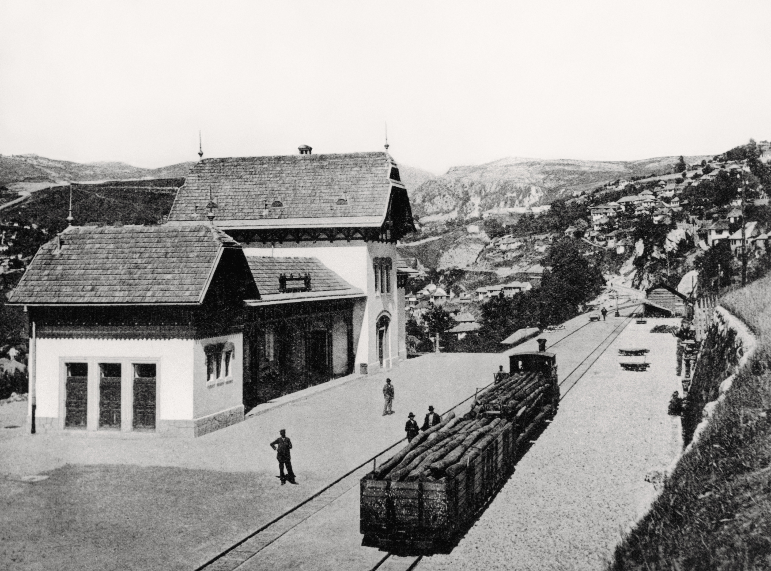 Narrow-gauge railway station Bistrik on the Eastern line Sarajevo (- Vardište) - Uvac